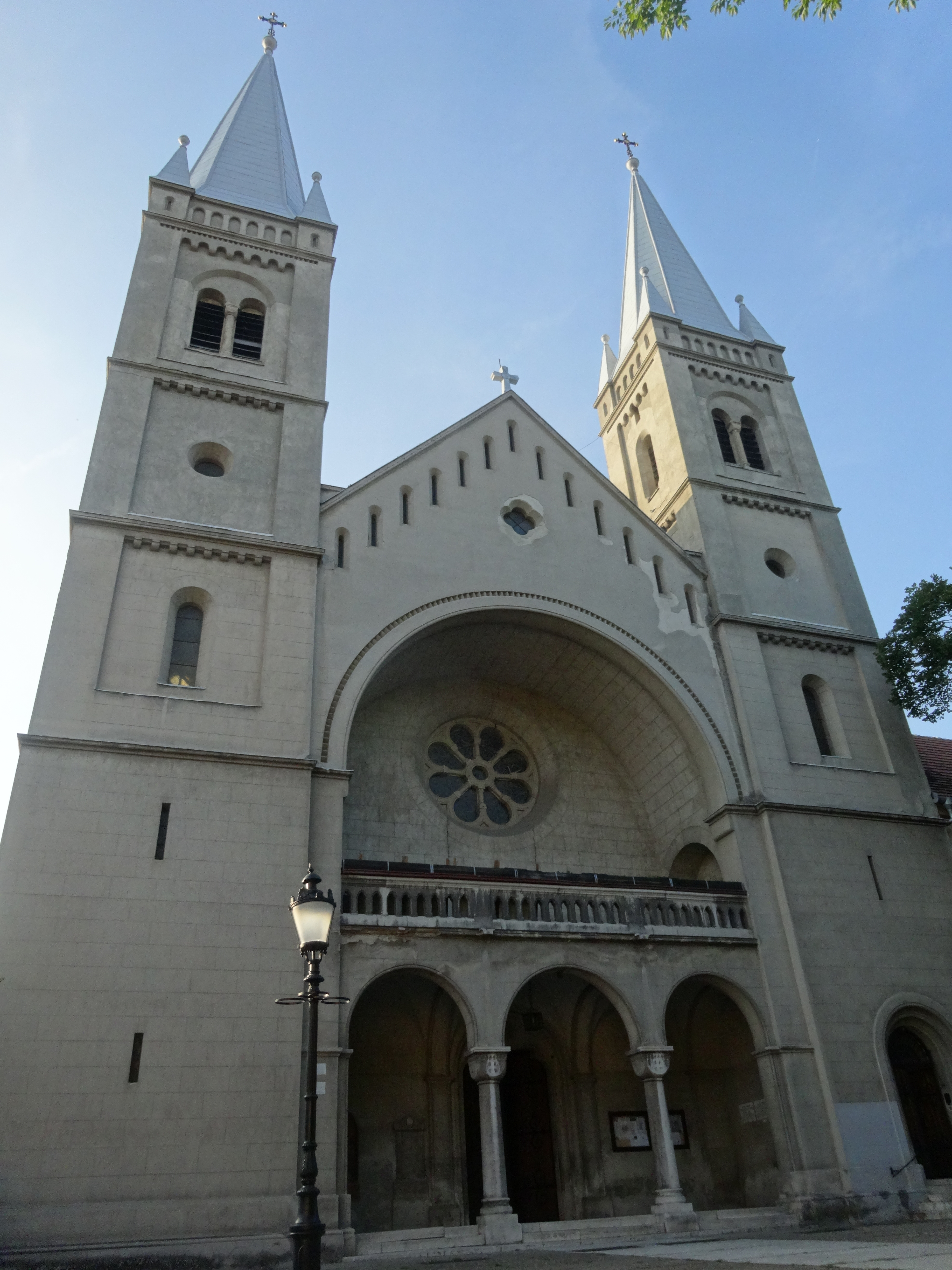 For the purpose of networking and strengthening cooperation between the chapters of the Wikimedia Foundation, Wikimedia Serbia and Wikimedia Hungary held a Wiki Camp in Palic and Szeged from 22nd to 24th of August in 2014 at Palic and Szeged as a three-day event. During these three days, participants from Serbia and Hungary have had workshops of editing Wikipedia, photo tour and creative workshop solving case studies.